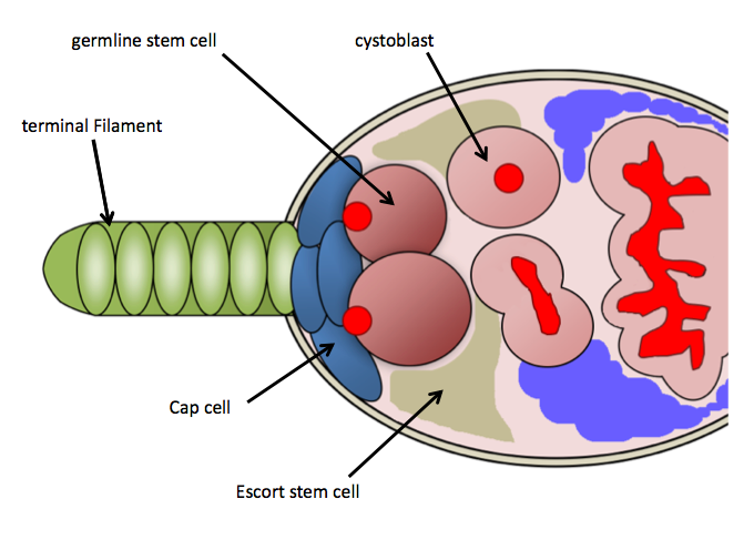 diagram of a GSC niche in the ovariole